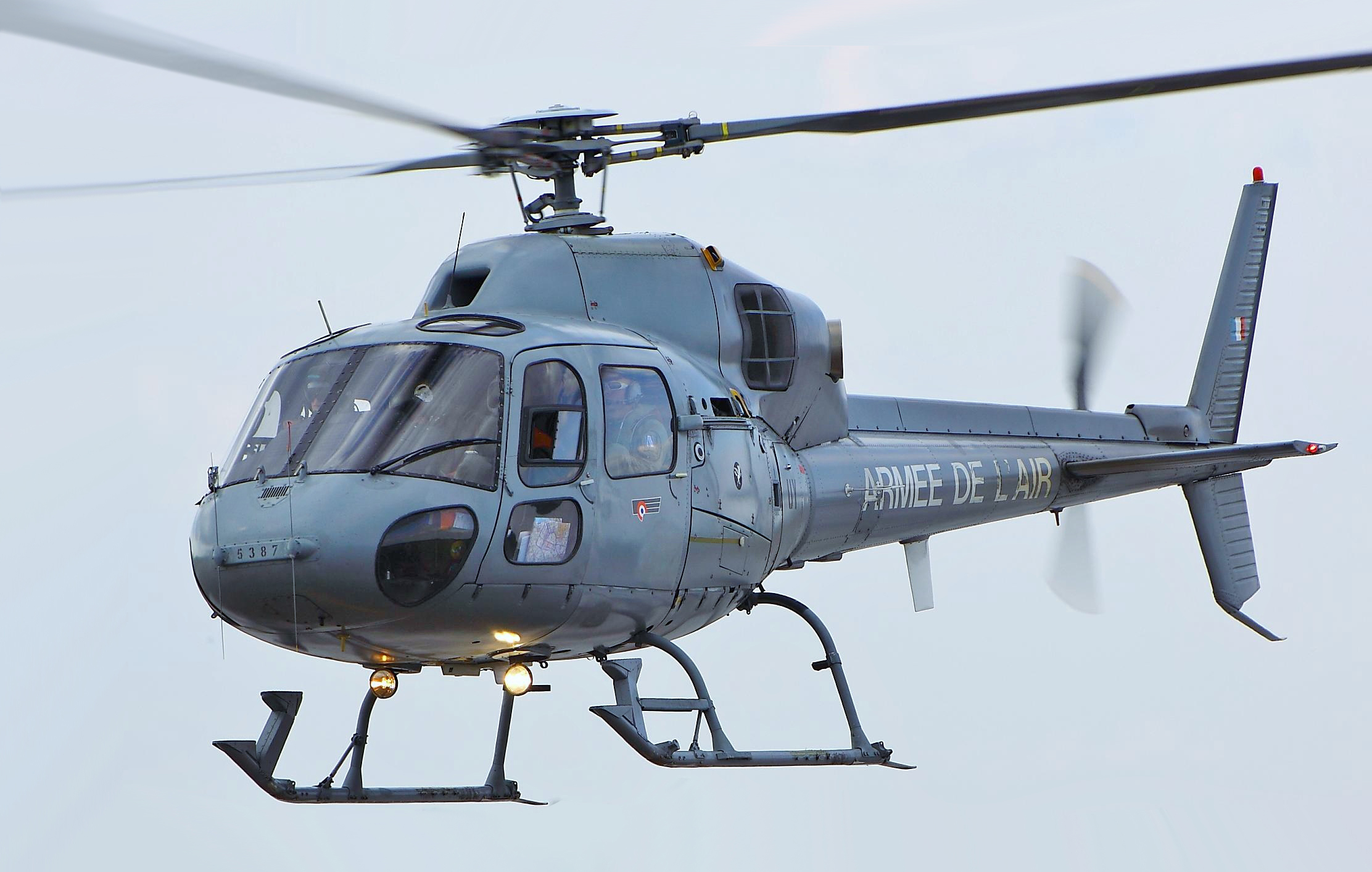 AS355 Twin Squirrel - RIAT 2011